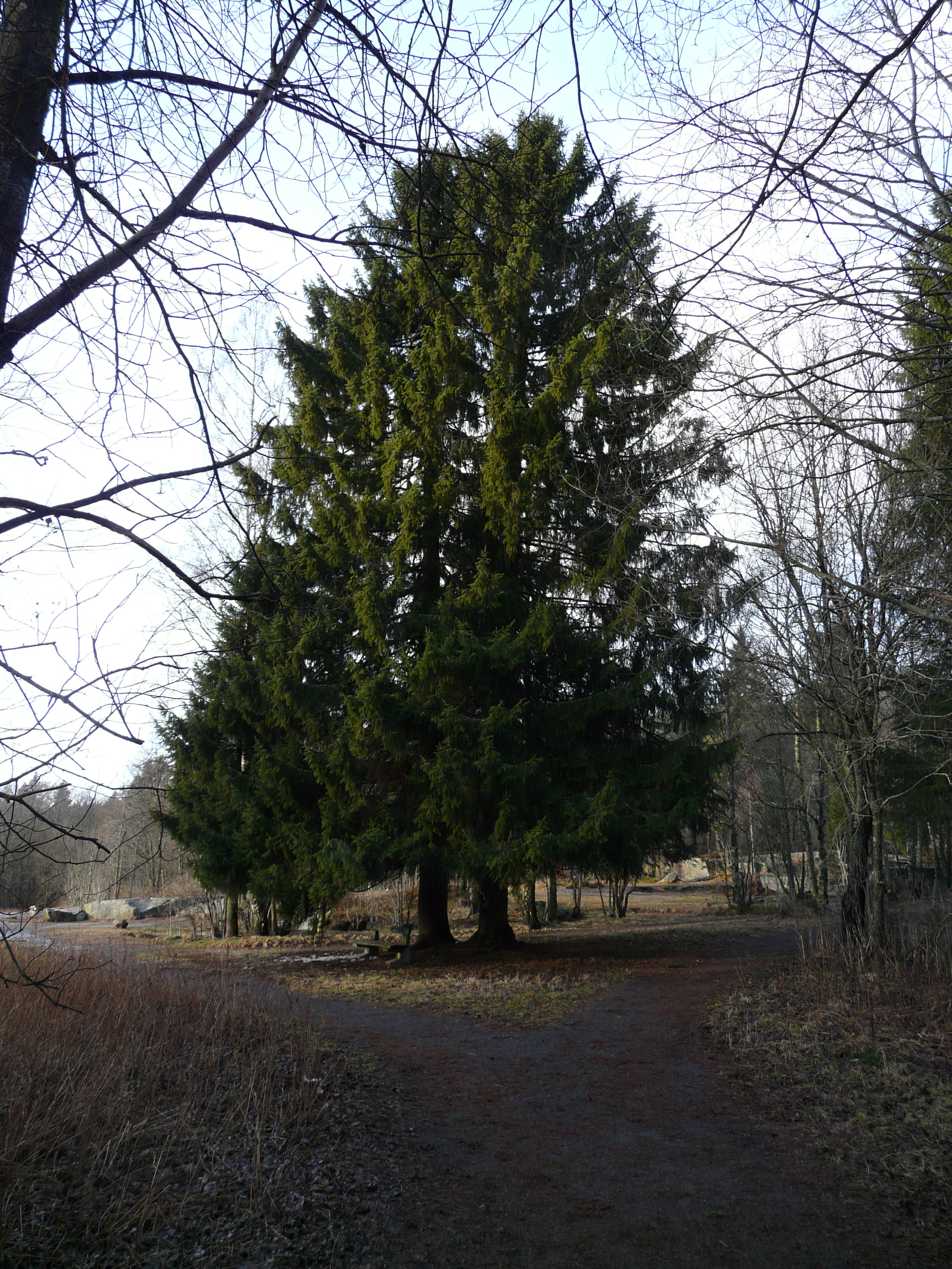 Spruce, Lillomarka, Oslo.